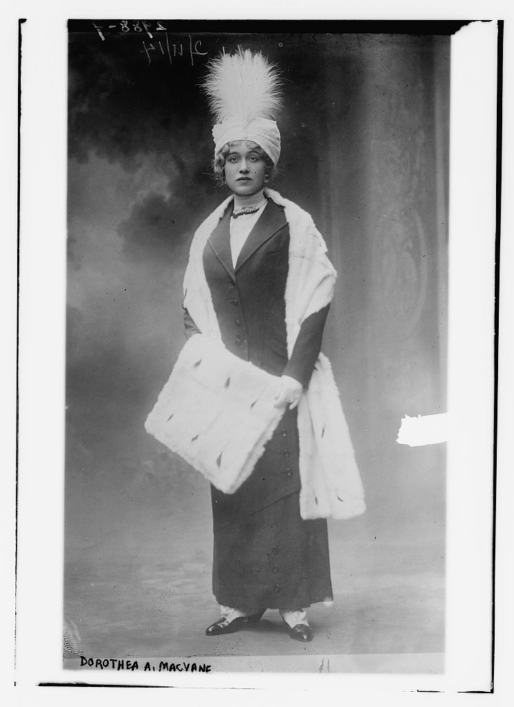 Bain News Service,, publisher. Dorothea A. MacVane [between ca. 1910 and ca. 1915] 1 negative : glass ; 5 x 7 in. or smaller. Notes: Title from unverified data provided by the Bain News Service on the negatives or caption cards. Forms part of: George Grantham Bain Collection (Library of Congress). Format: Glass negatives. Repository: Library of Congress, Prints and Photographs Division, Washington, D.C. 20540 USA, General information about the Bain Collection is available at Persistent URL: Call Number: LC-B2- 2988-9